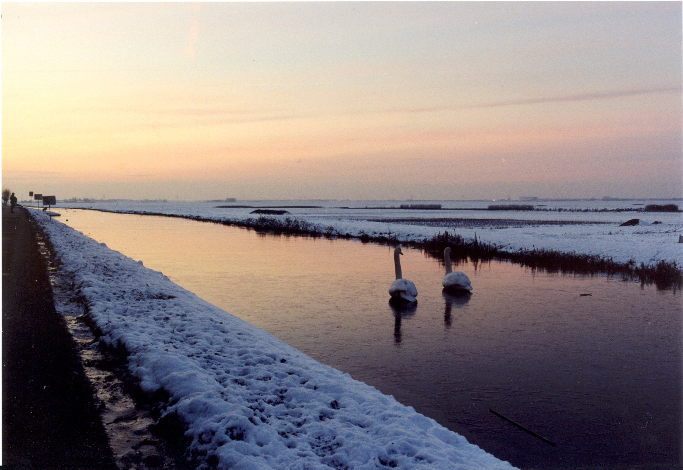 Swans on their honnymoon